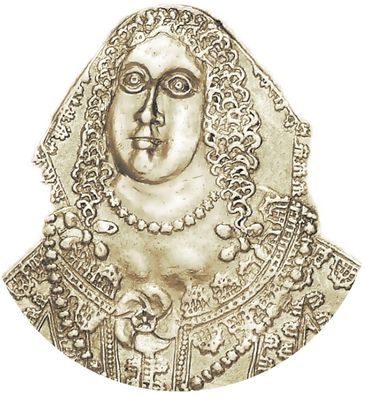 Elisabeth Lucretia, duchess of Teschen (1625-1653). Detail of a portrait on a coin minted in 1650.